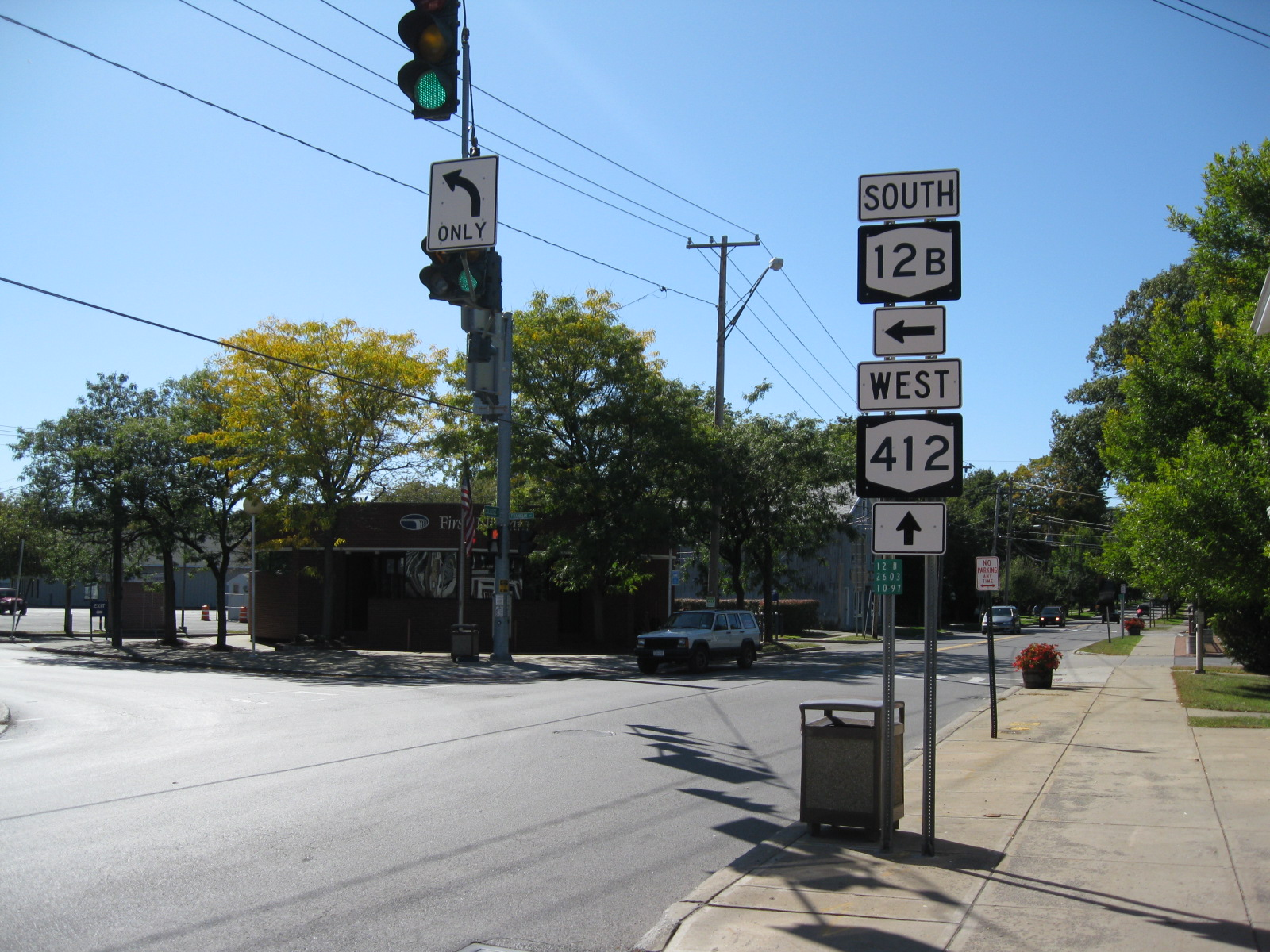 New York State Route 12B southbound at the junction with New York State Route 412 in Clinton, Oneida County.